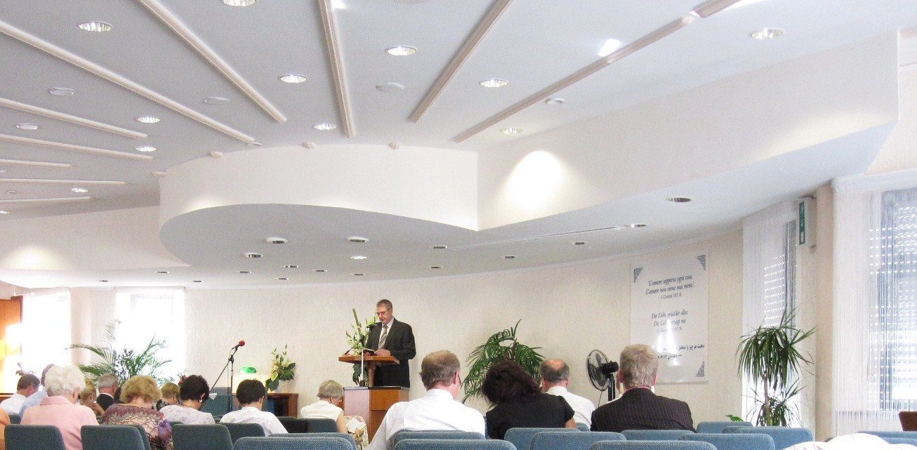 Gottesdienstliche Zusammenkunft im Königreichssaal